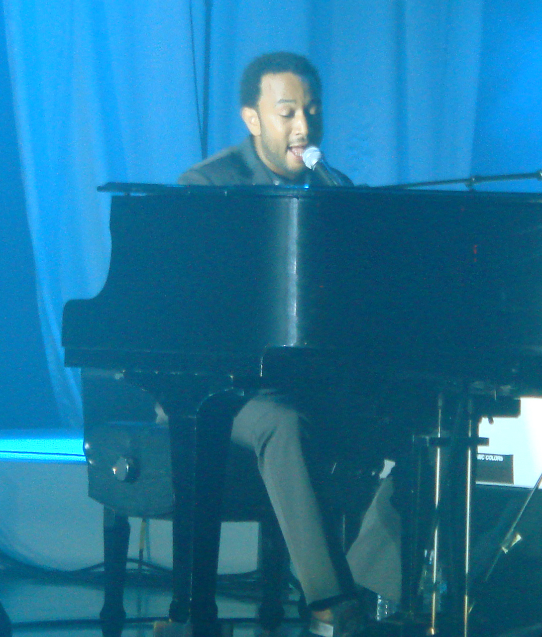 John Legend at the Nokia Theater in Times Square.